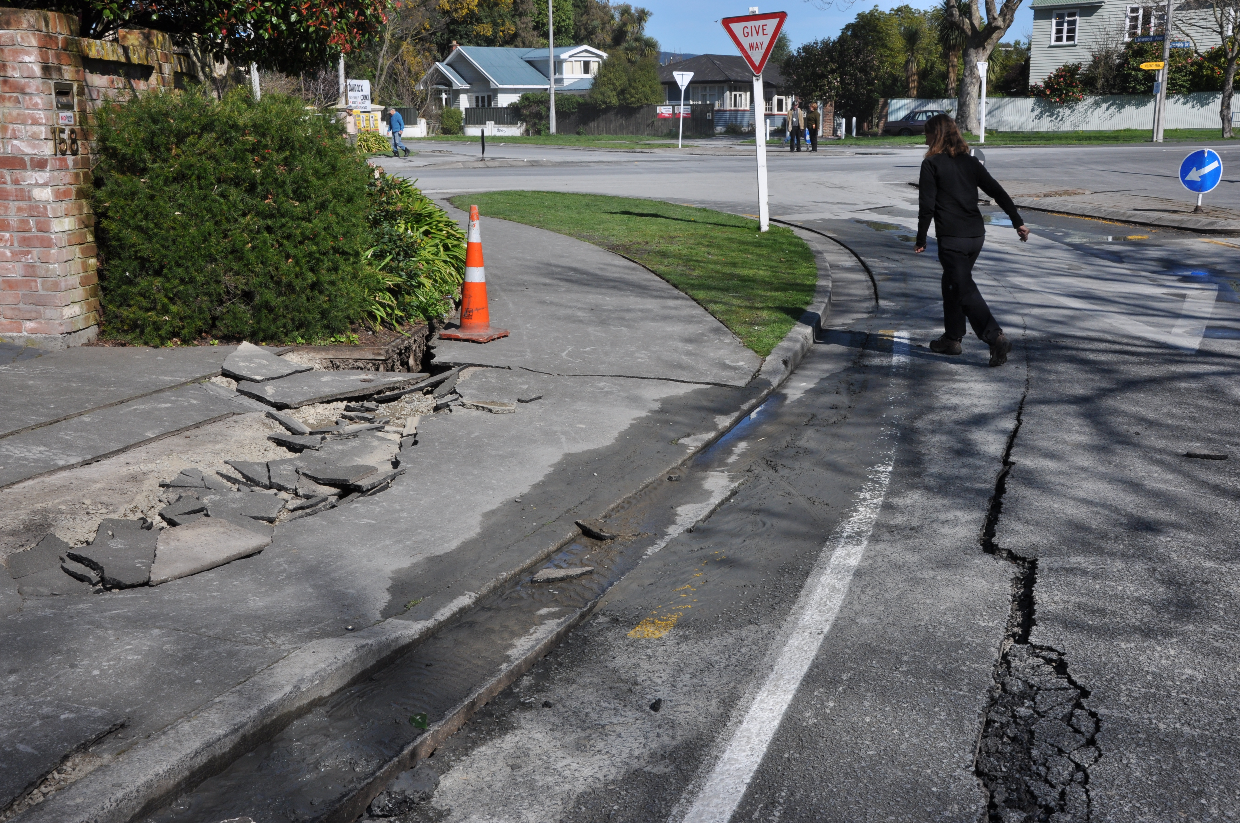 Lateral spread in Christchurch, New Zealand, caused by liquefaction during Mw 7.1 Canterbury earthquake on 4 September, 2010.